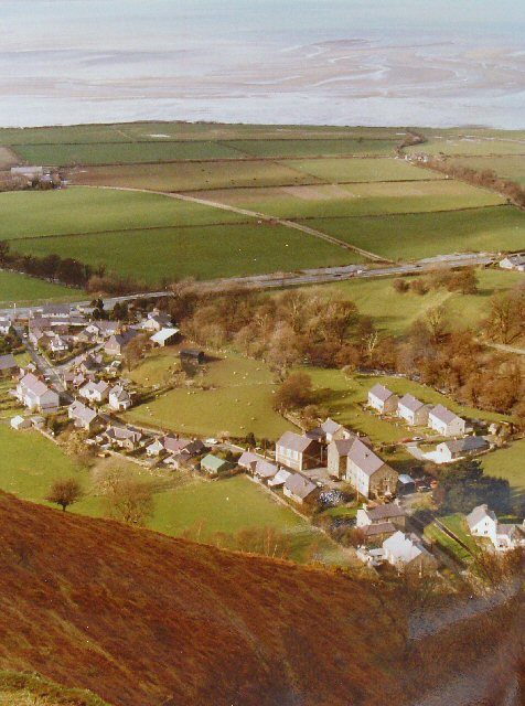 Abergwyngregyn Village. Viewed from the S from the steep ridge running down from Ffridd Ddu. The village below Aber Falls.